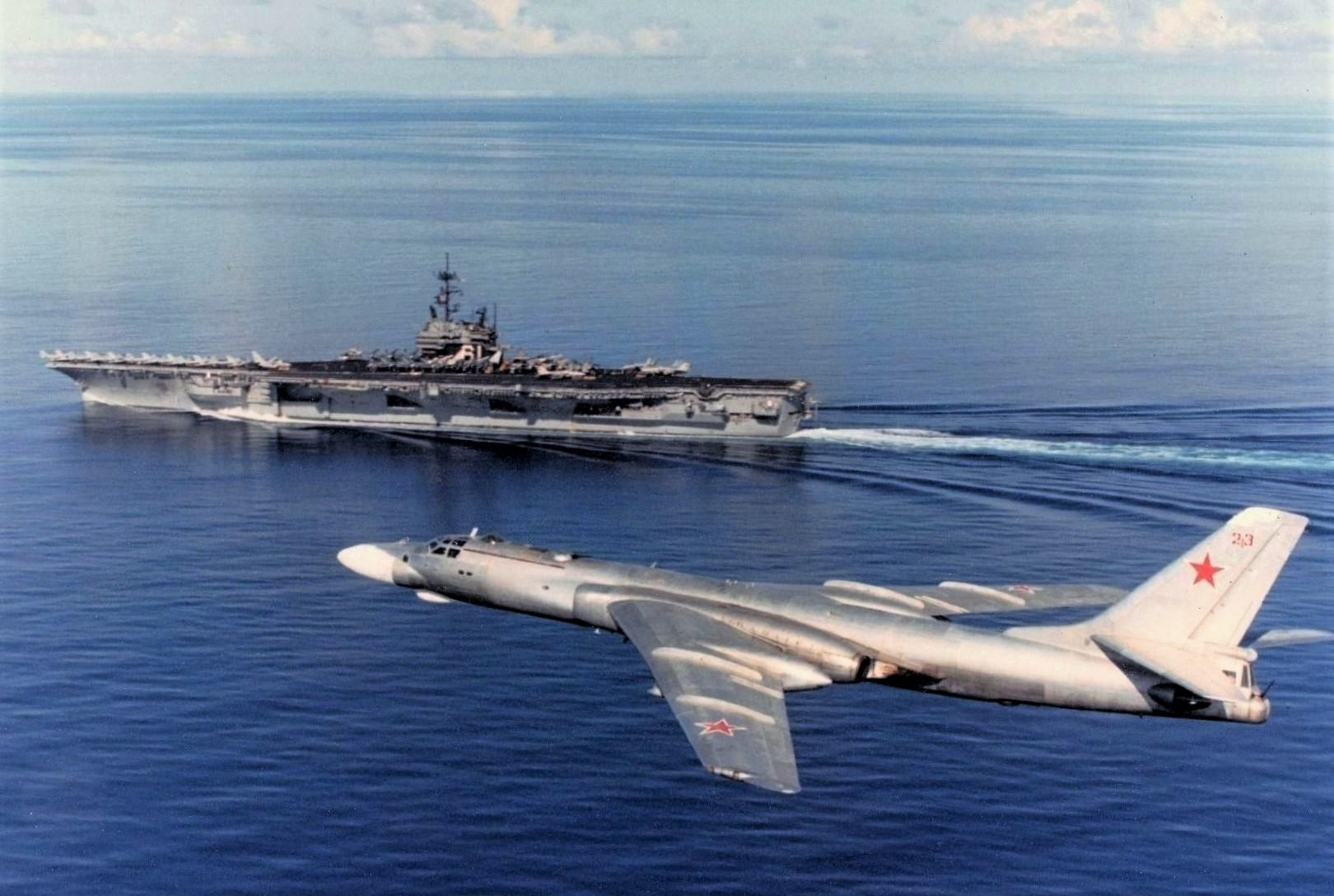 A Soviet Tupolev Tu-16K-10 (NATO code "Badger C") flying past the U.S. Navy aircraft carrier USS Ranger (CV-61) in 1989.